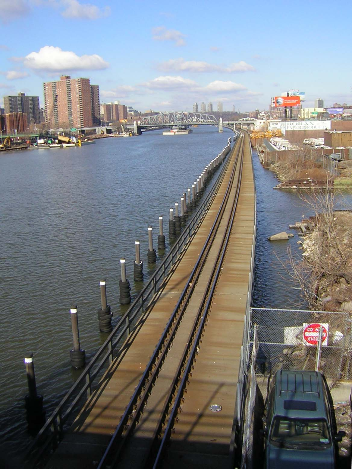 Looking north along east bank of Harlem River from Madison Avenue Bridge towards 145th Street Bridge with unknown Oak Point Link freight railroad in foreground. See Wikipedia_talk:WikiProject_New_York_City_Public_Transportation